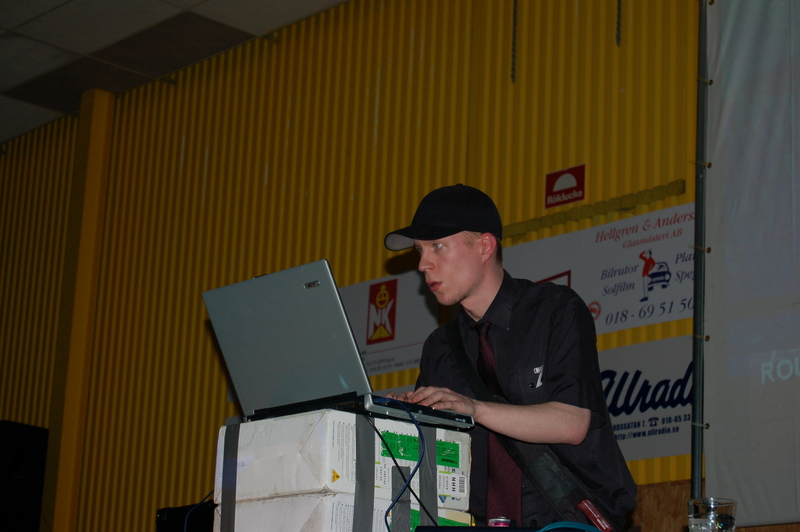 Psilodump live during Birdie 2006. Photo by my friend.